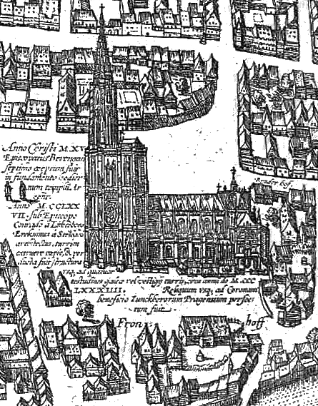 Cathedral of Strasbourg, cut of an aerial view map of the city, piece of Civitates orbis terrarum, vol. VI